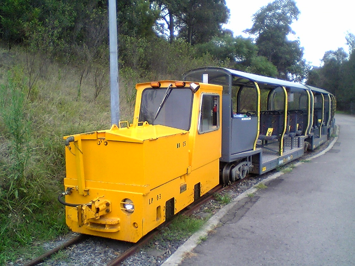 GEMCO George Moss and Co battery electric locomotive built in 1963. Used until 1999 to transport munitions at the Newington Armoury, Sydney. Now used to haul the the tourist train at the Heritage Newington Armoury Heritage Railway, run by the Olympic Park Authority.